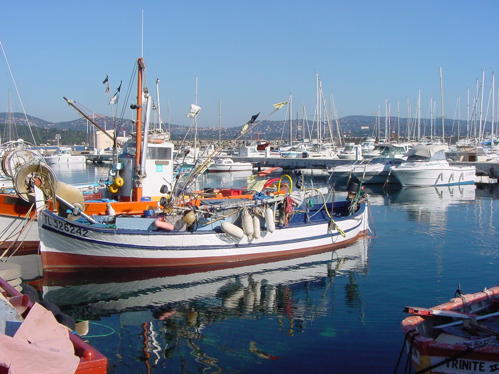 Pointu boat at the harbour of Cavalaire-sur-Mer